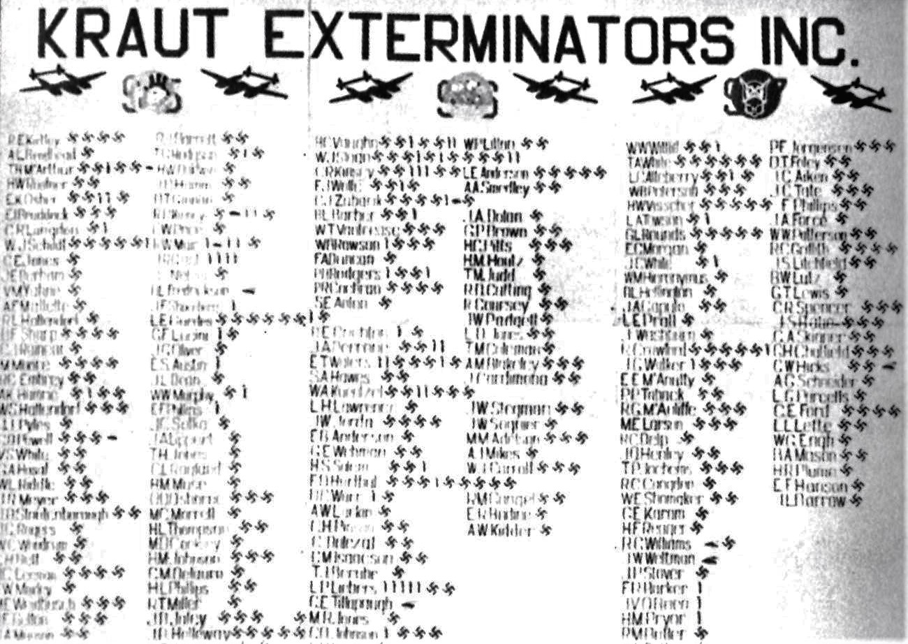 Scoreboard of p-38 pilots in West European theatre